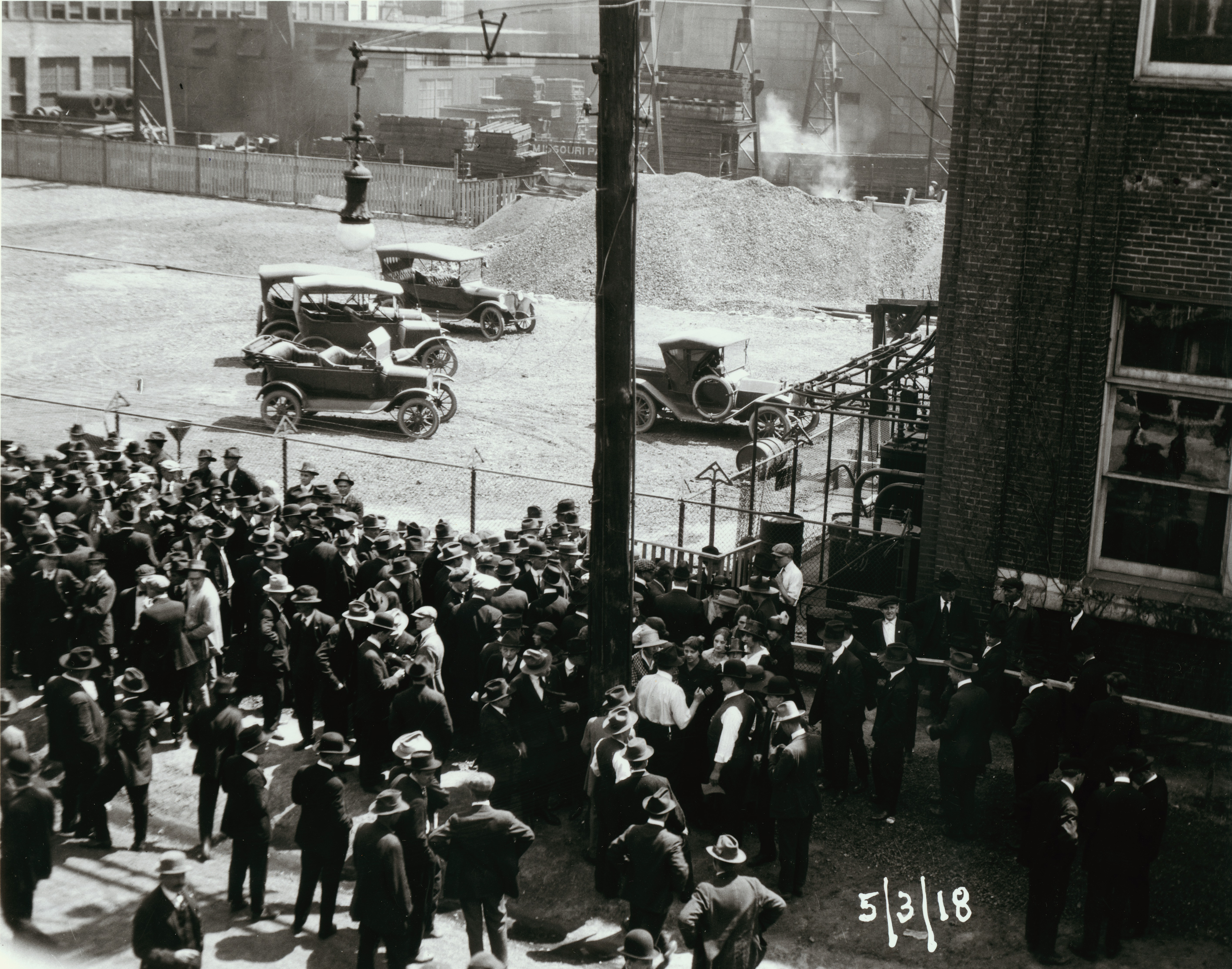 Title: Wagner Electric Company Strike, several people gathered outside building, some in confrontational poses as they converse with each other. May 3rd, 1918.